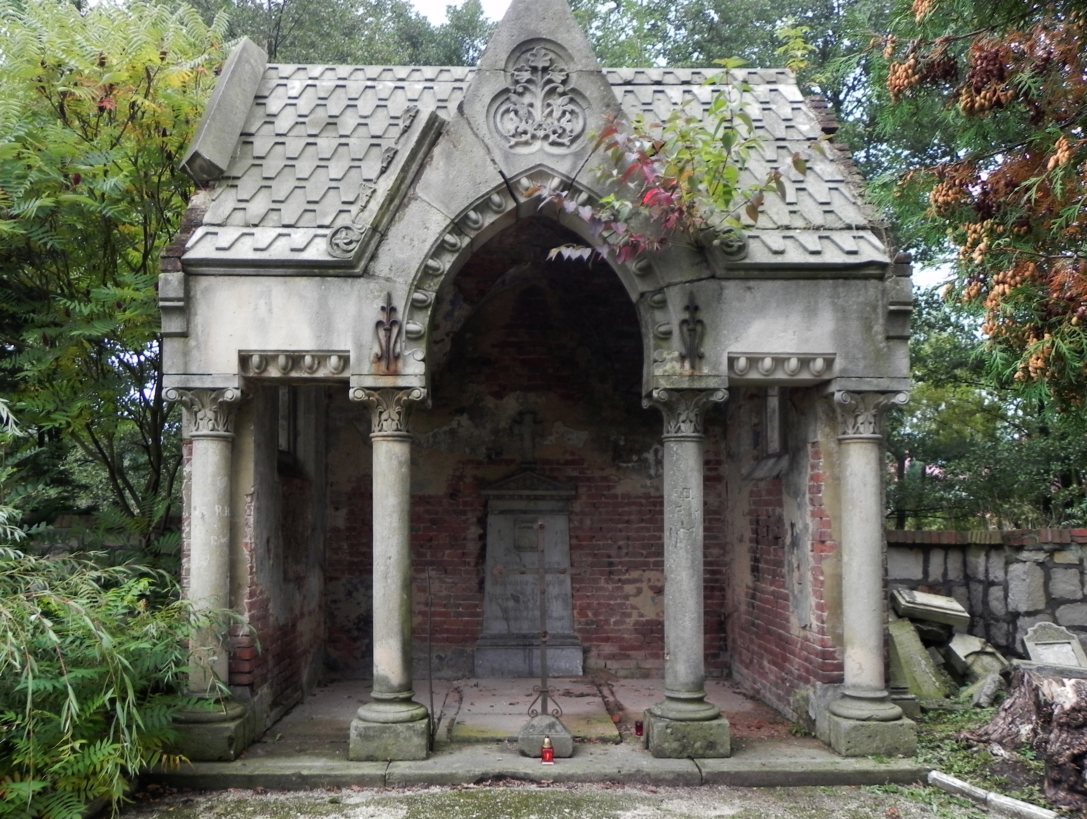 Saint Roch church in Lądek-Zdrój, mausoleum of Johanna Sofia von Schutter